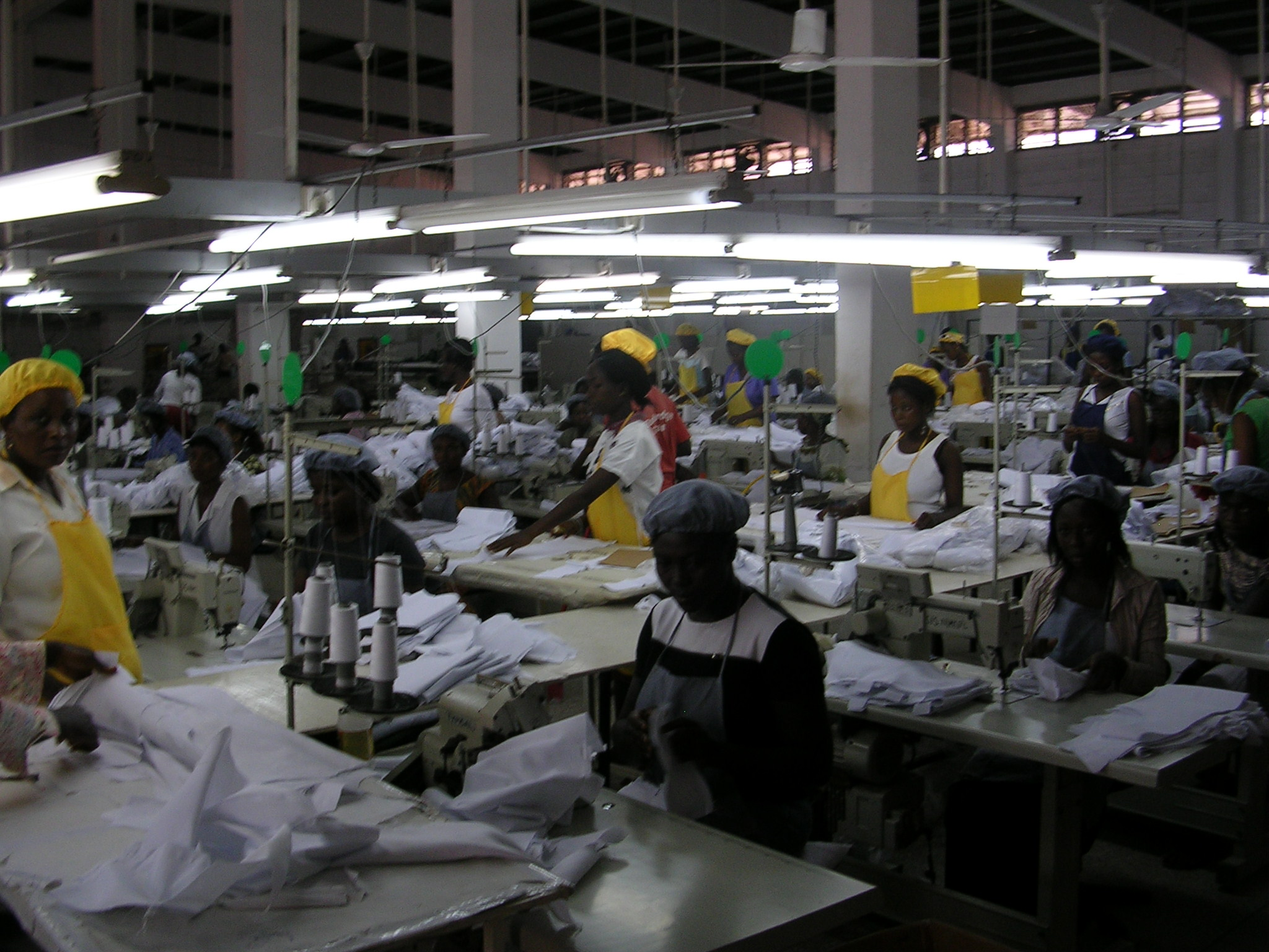 The "Sleek Garments" Industry is a beneficiary of USAID and AGOA support in Accra, Ghana.